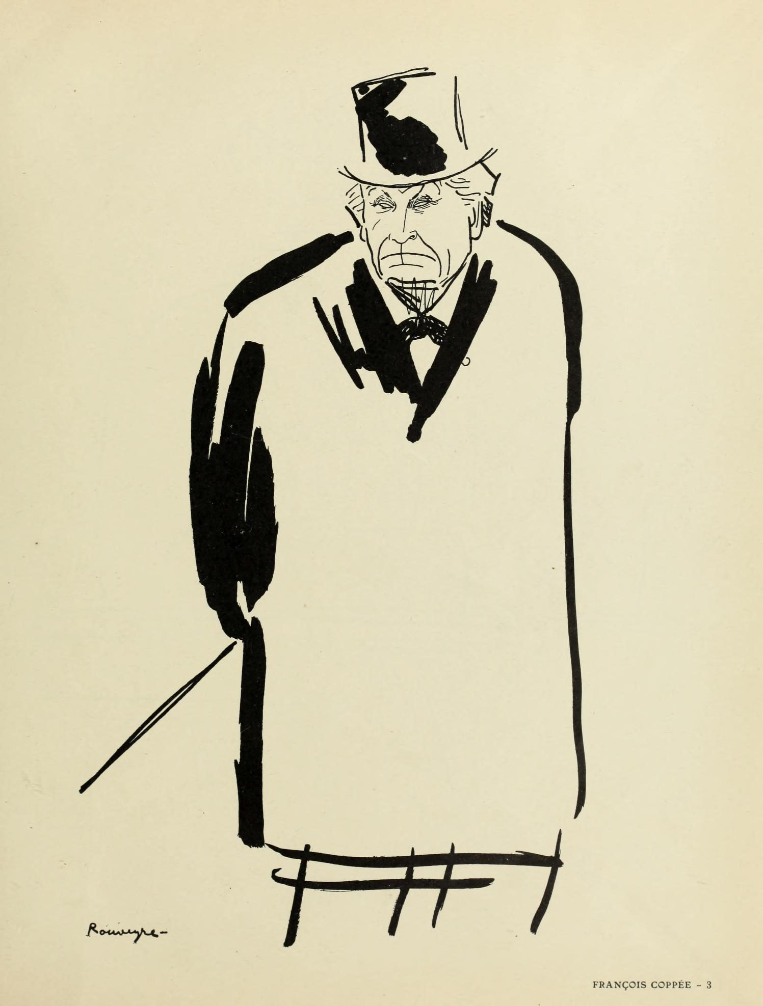 Drawing of François Edouard Joachim Coppée